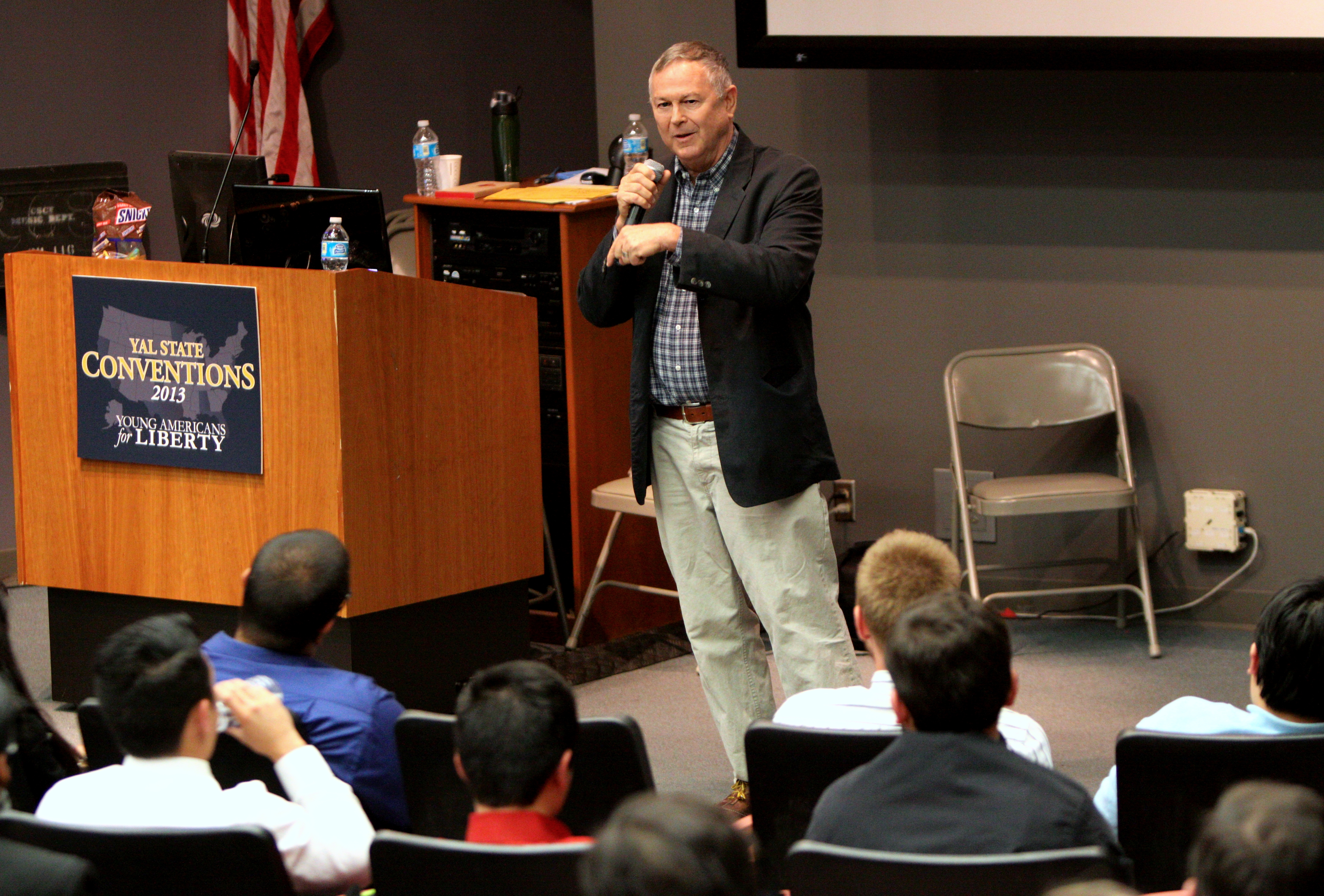 in Fullerton, California